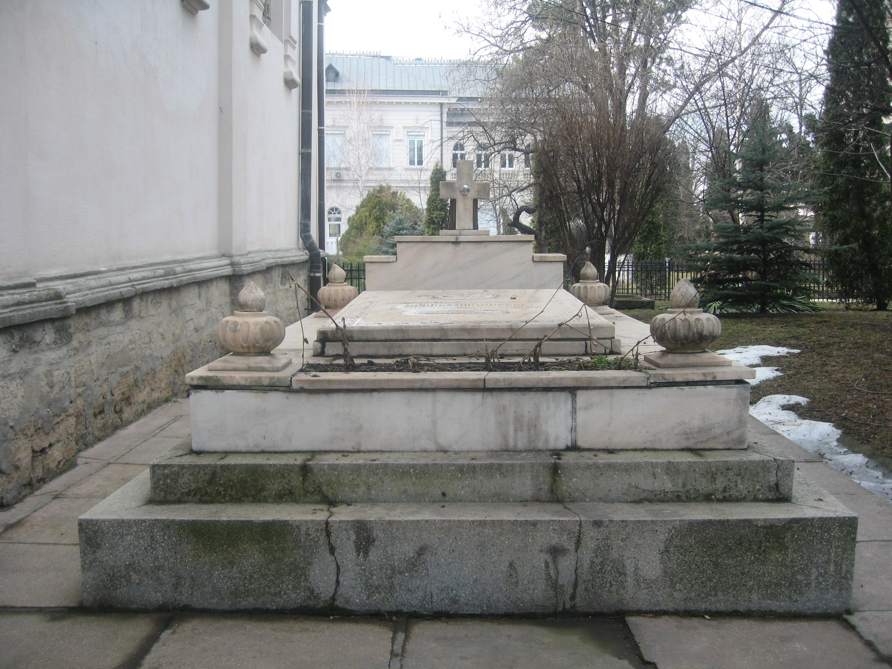 St.George Church in Iași (old Metropolitan Cathedral)